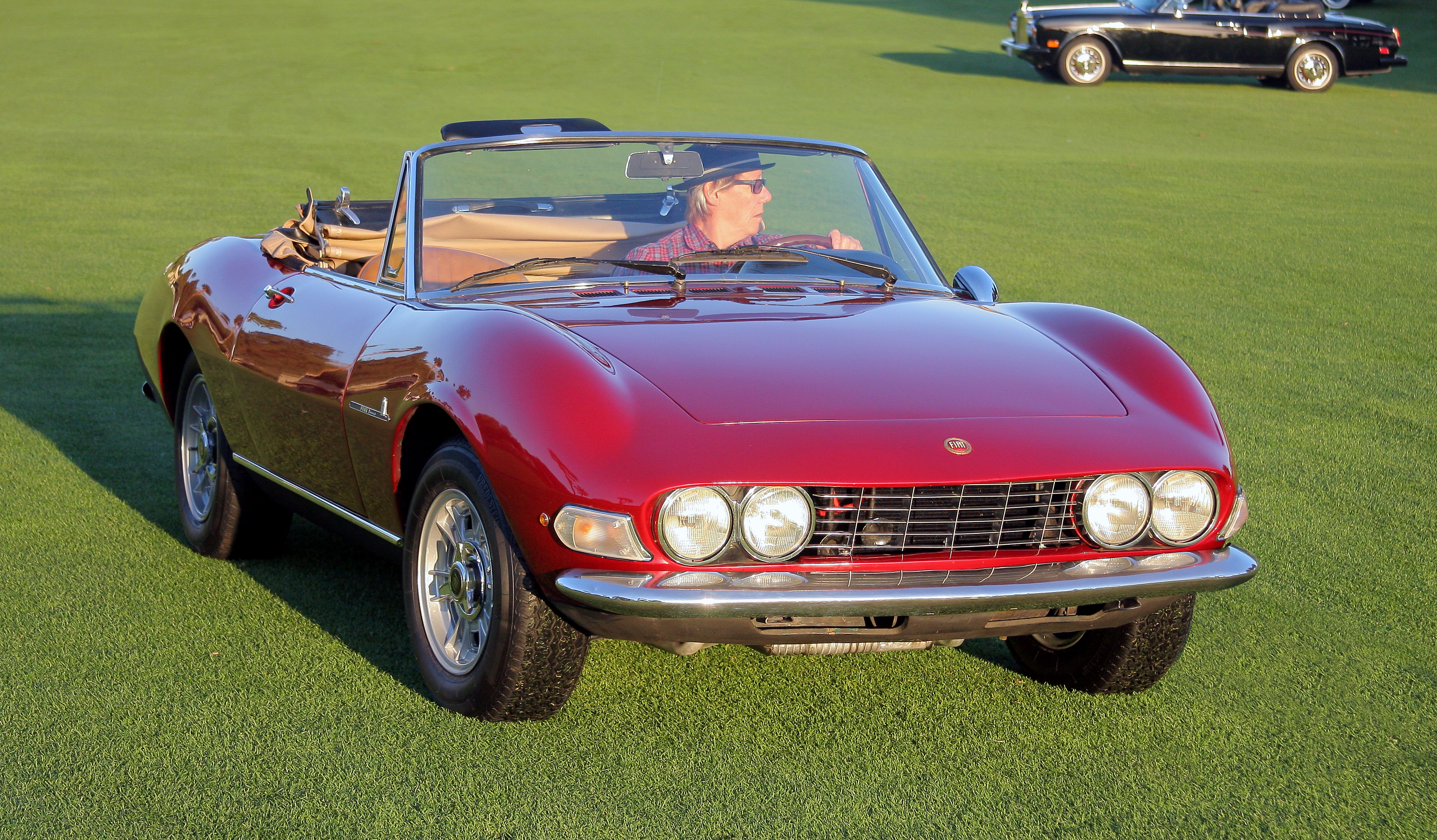 2014 Desert Classic Concours d'Elegance, Palm Springs, CA